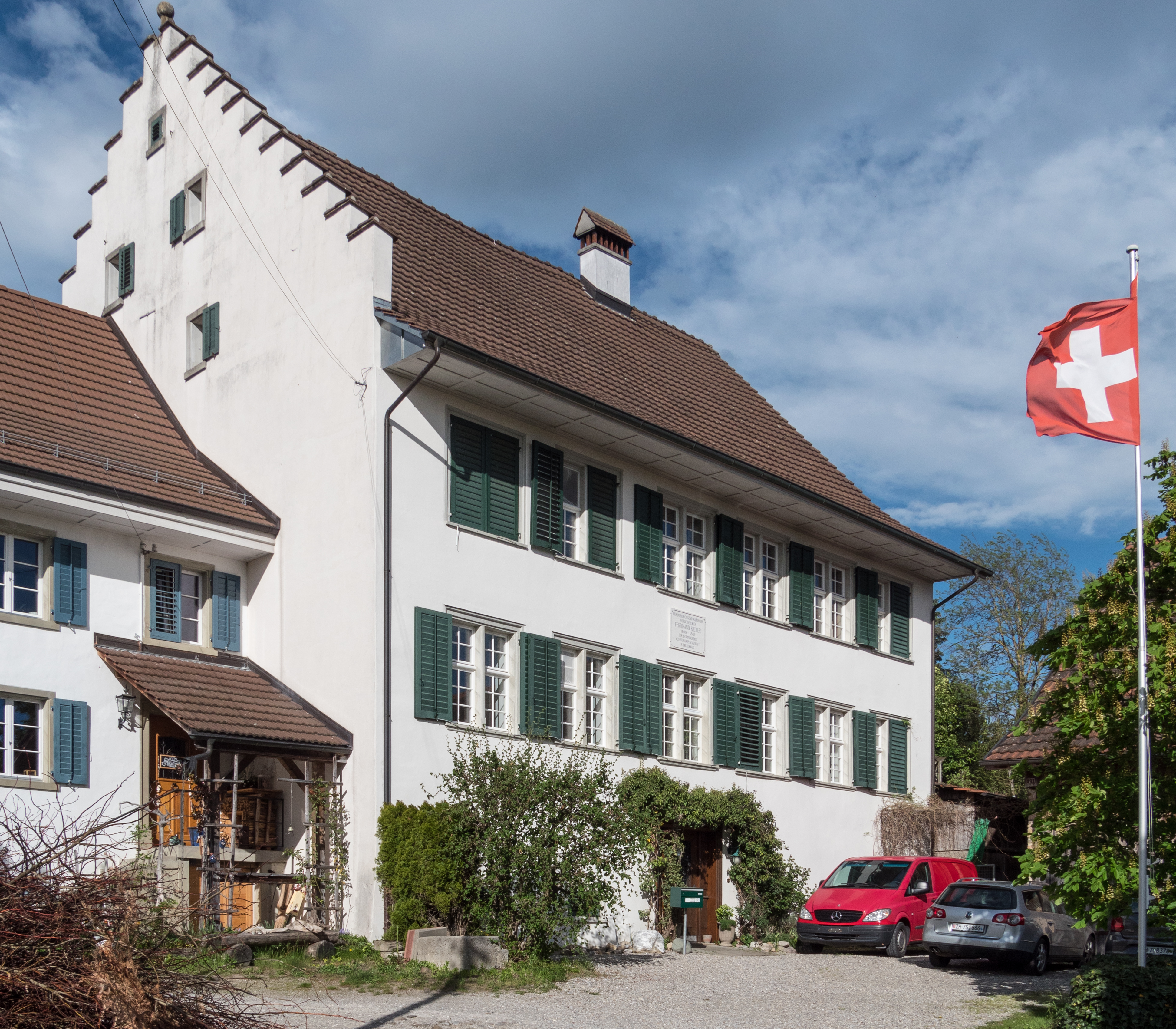 Manor house Marthalen, canton of Zürich. Built about 1440. Birthplace of Ferdinand Keller.